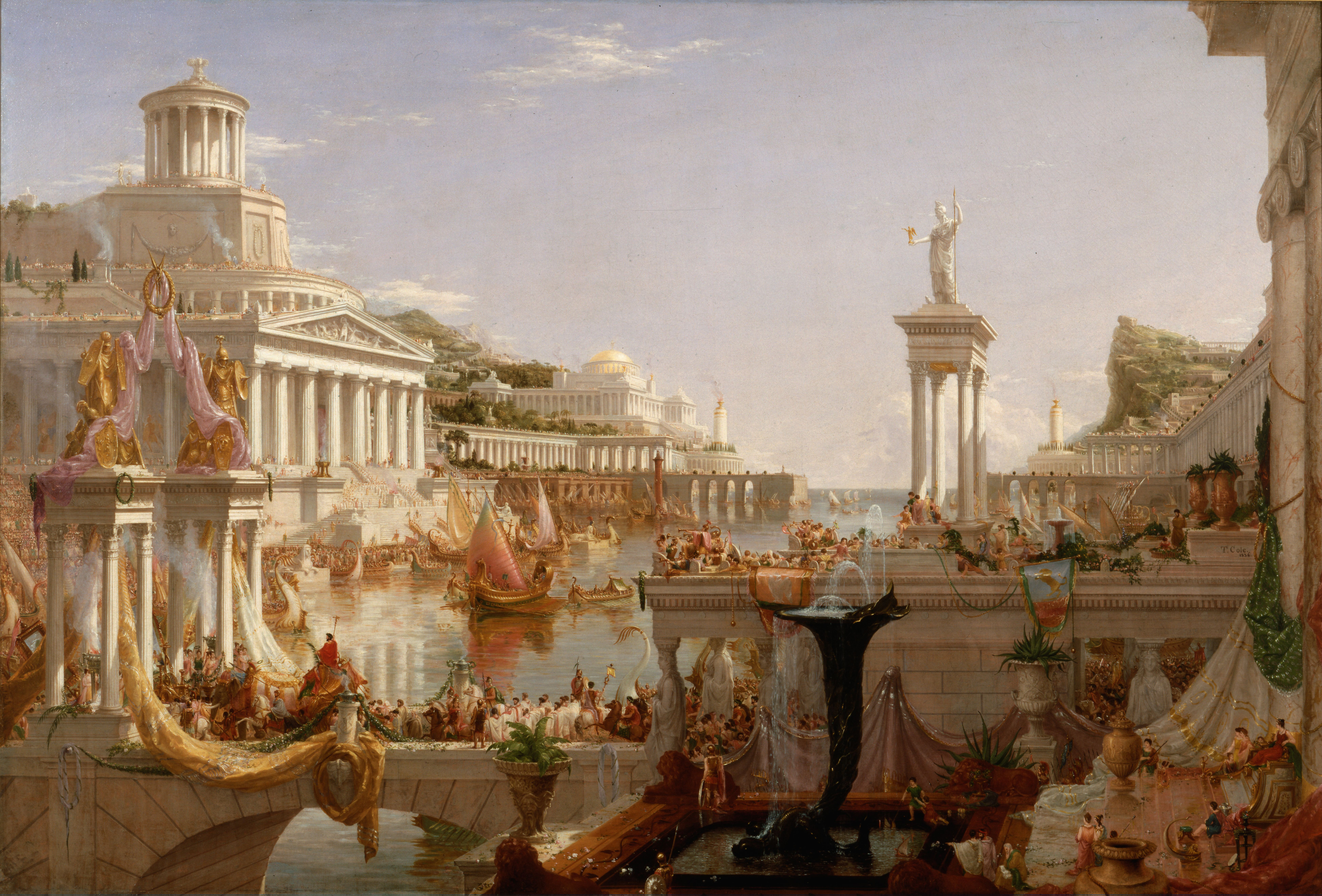 The Consummation of Empire from The Course of the Empire. 51 x 76 in (129.54 x 193.04 cm)